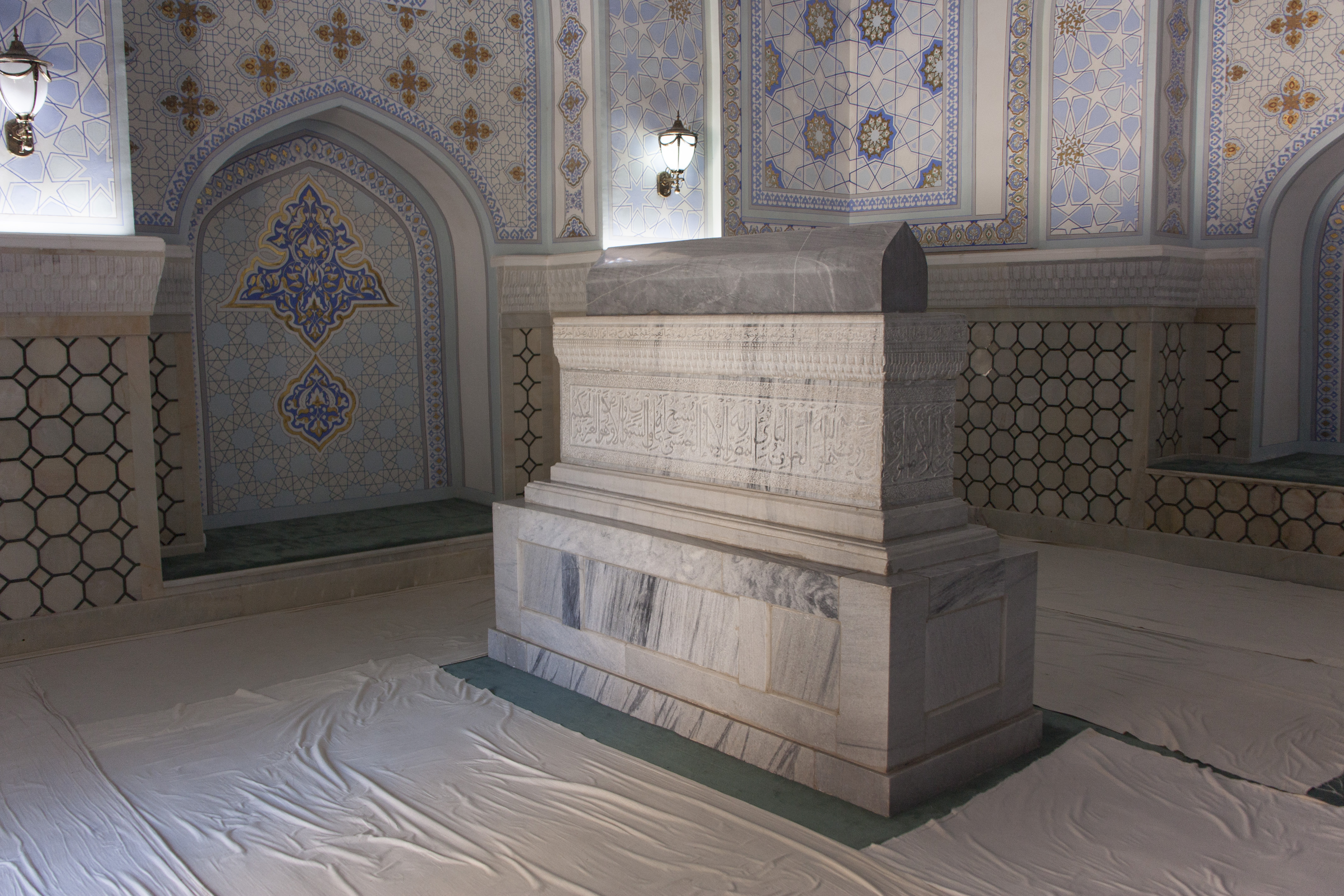 Shamseddin Kulal mausoleum